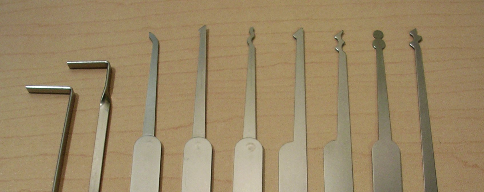 Eight tools which are commonly used to pick locks. The two tools on the left are tension wrenches. The picks from left to right are: hook pick, half diamond (steep angles), snake rake, half diamond (shallow angles), S-rake pick, double round pick and long double ended pick.